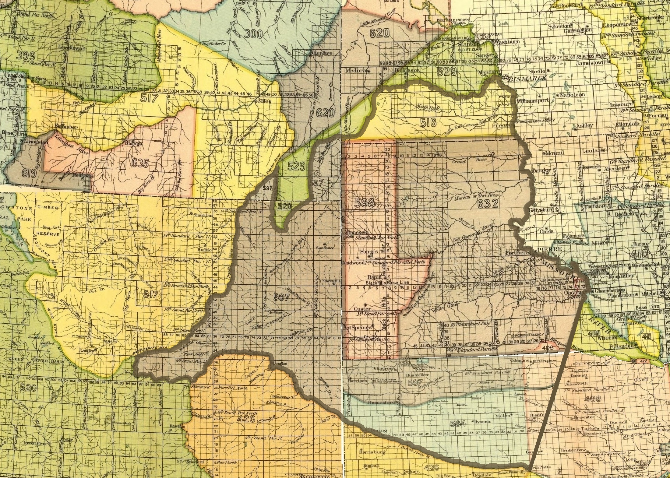 The outline of the 1851 Sioux territory as defined in the Fort Laramie treaty (1851). Also the Crow 1851 territory and parts of other adjoining Indian territories. The map covers parts of present-day Montana, North Dakota, South Dakota, Wyoming and Nebraska